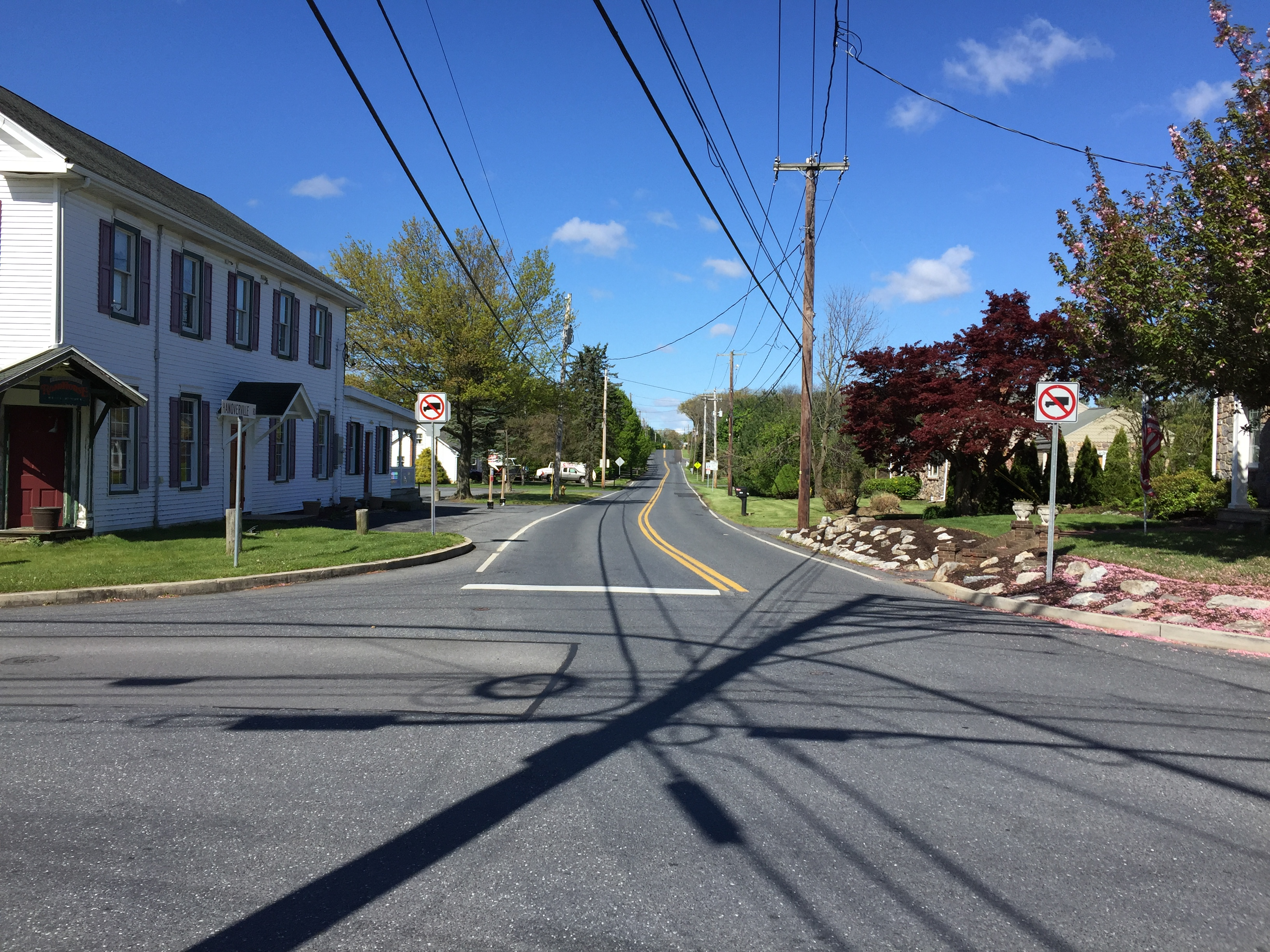 View down Hanoverville Rd from intersection with Township Line Rd, Hanover Township (Hanoverville), Northampton County PA